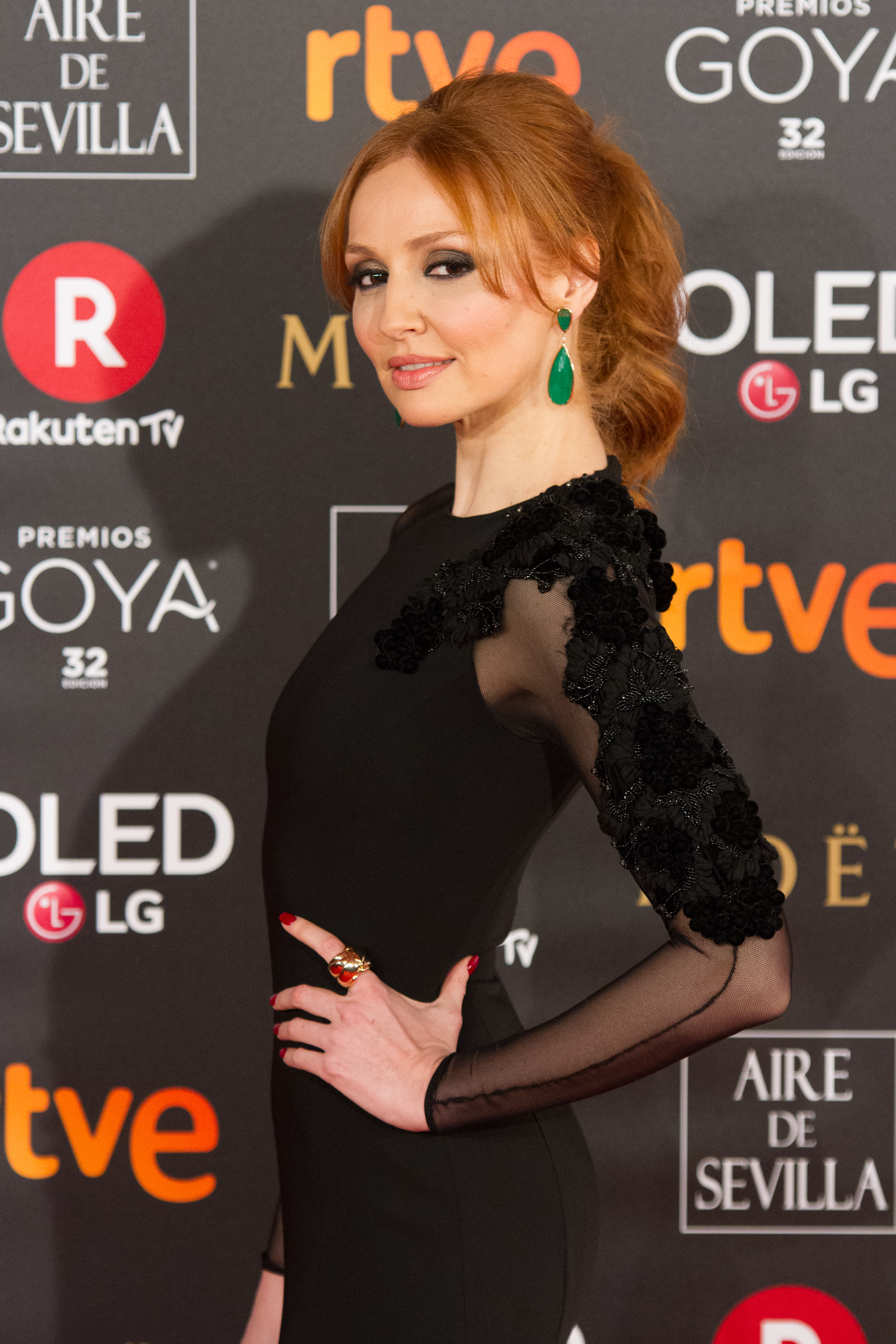 32nd Goya Awards, 2018.